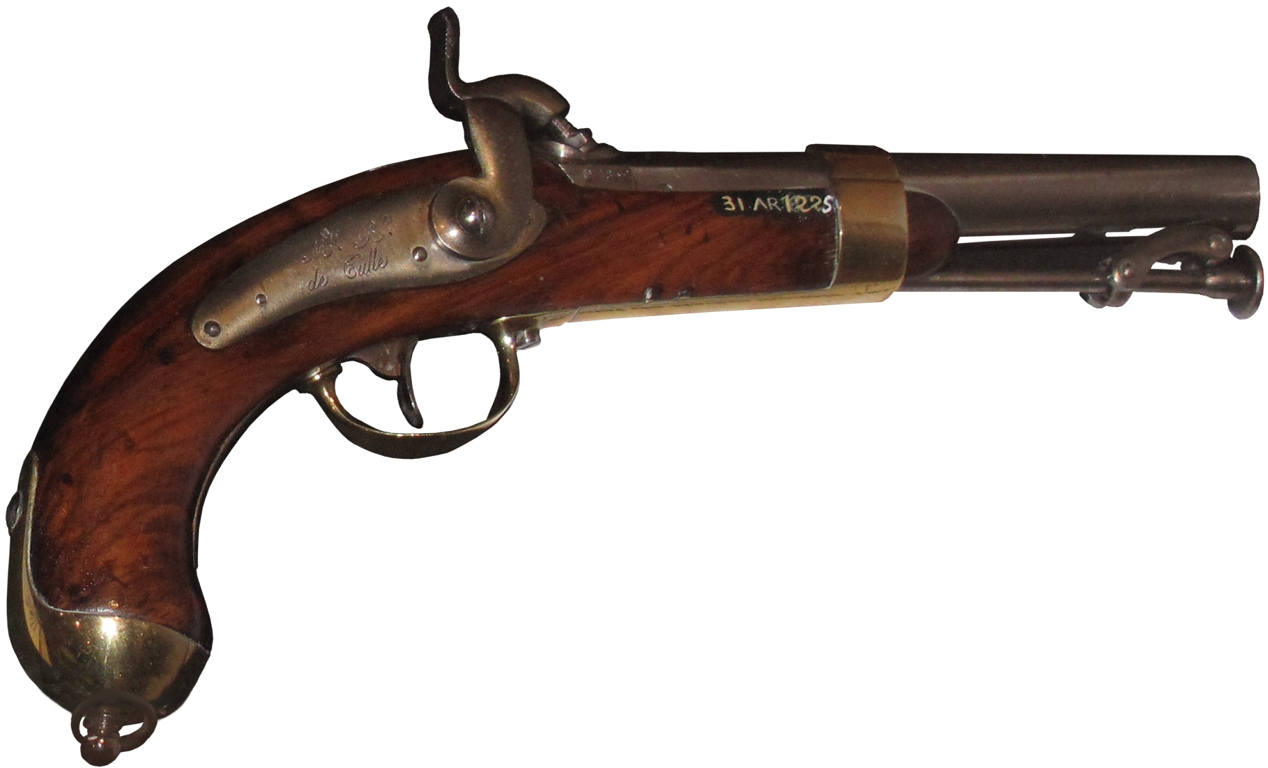 French naval pistol model 1837. Tulle factory, 19th century, MnM 31 AR 122.5. On display at Toulon naval museum.